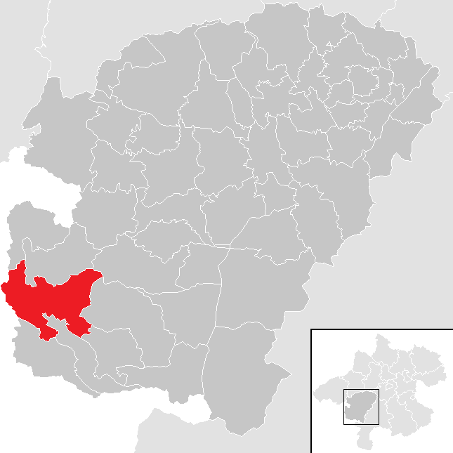 District Vöcklabruck